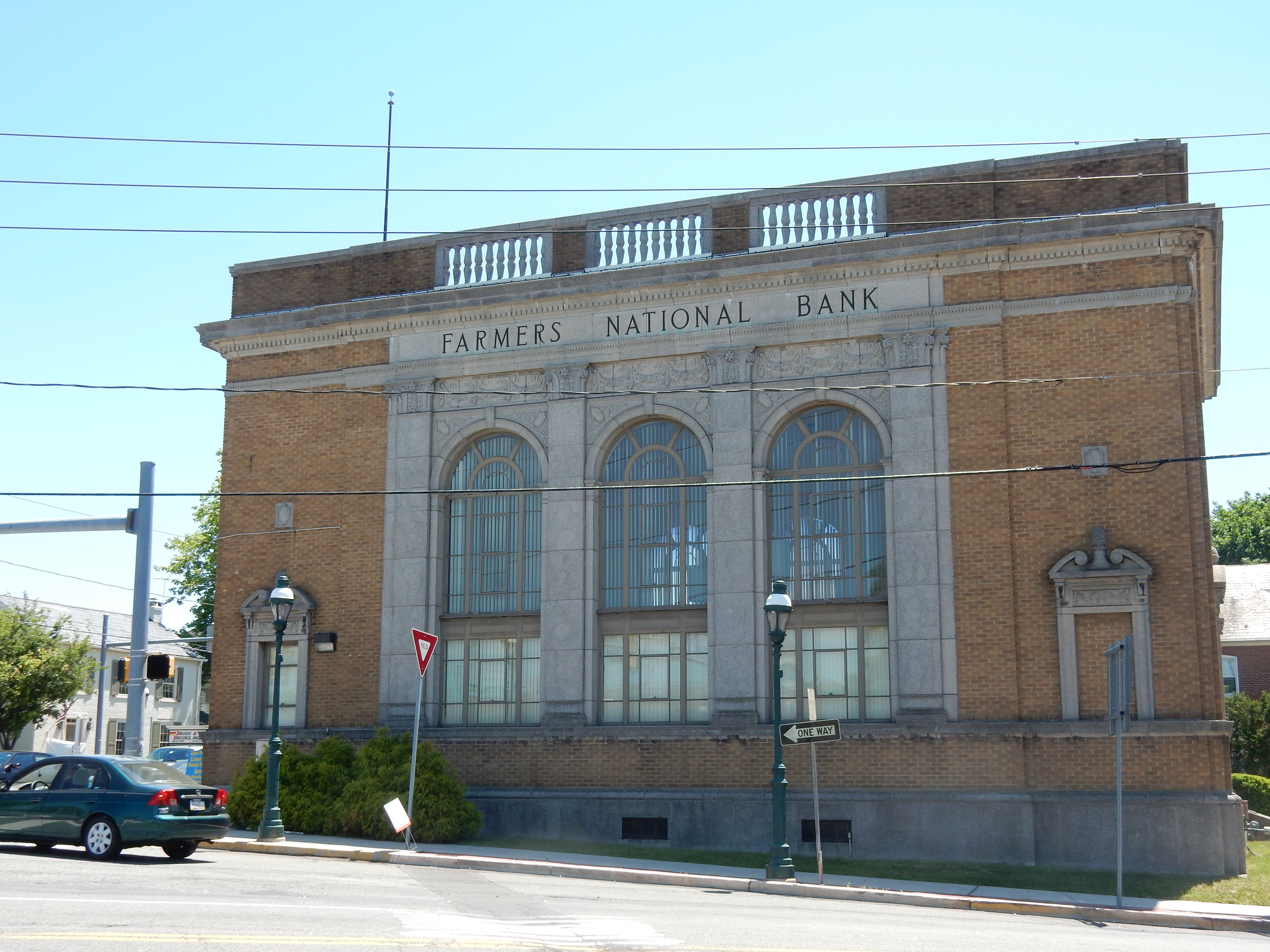 405 Main Street, Pennsburg, PA. Corner of Routes 29 & 663. Bank built in 1926 and has been a bank since. It was Wachovia since 2006.